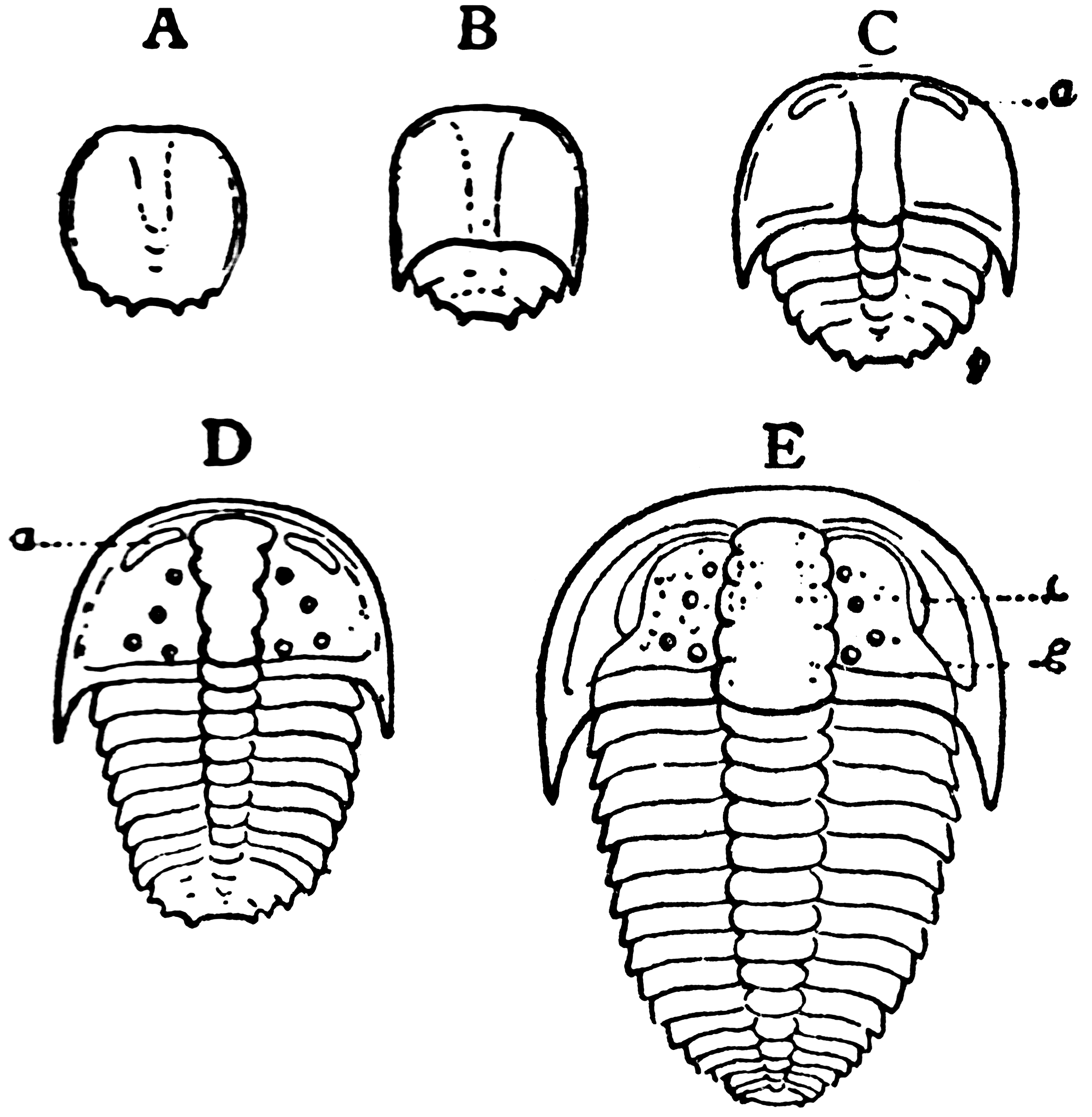 From Korschelt and Heider, after Barrande.Five Stages in the development of the trilobite Sao hirsuta. A, Youngest stage. B, Older stage with distinct pygidial carapace. C, Stage with two free mesosomatic somites between the prosomatic and telsonic carapaces. D, Stage with seven free intermediate somites. E, Stage with twelve free somites; the telsonic carapace has not increased in size. a, Lateral eye. g, So-called facial “suture” (not really a suture). p, Telsonic carapace.